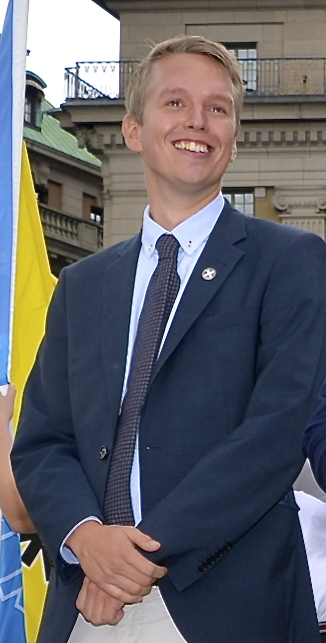 SvP rally in Stockholm August 30, 2014.